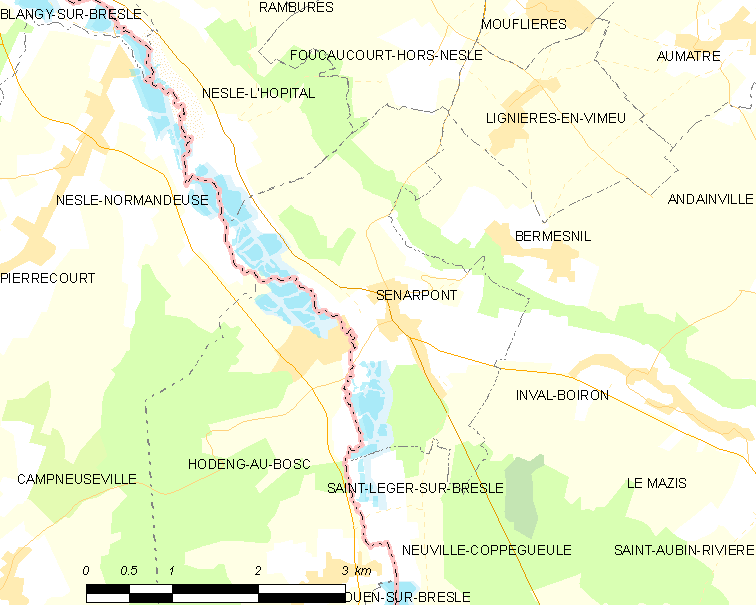 Map of French municipality Senarpont